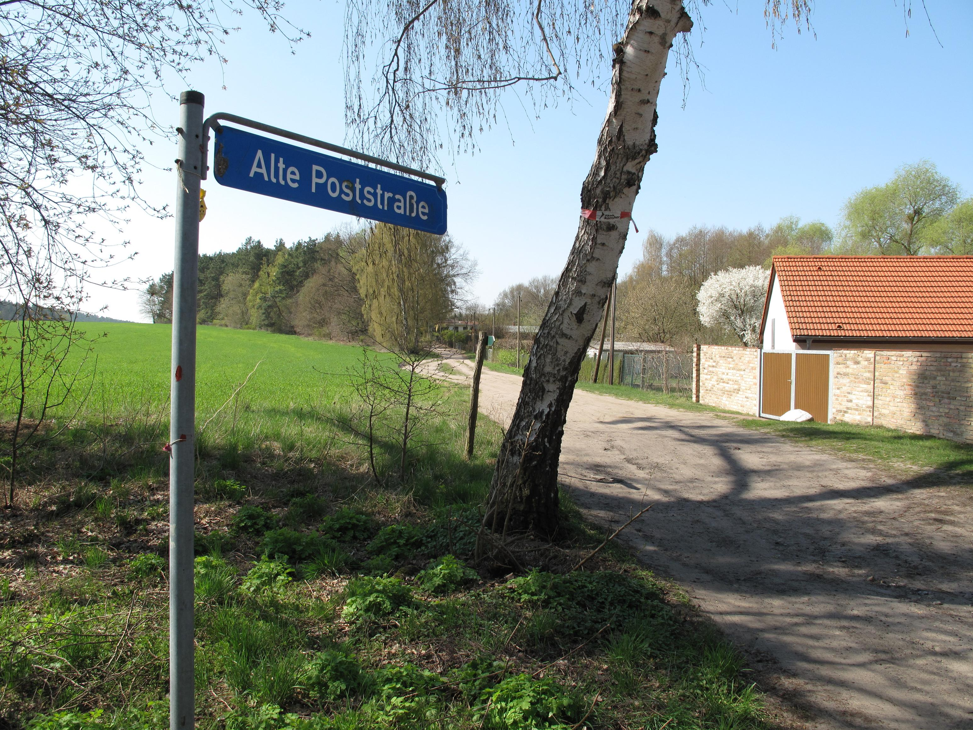 Alte Poststraße (historic post road) in Wildenbruch. Wildenbruch is a part of Michendorf in the district Potsdam-Mittelmark, state Brandenburg, Germany.